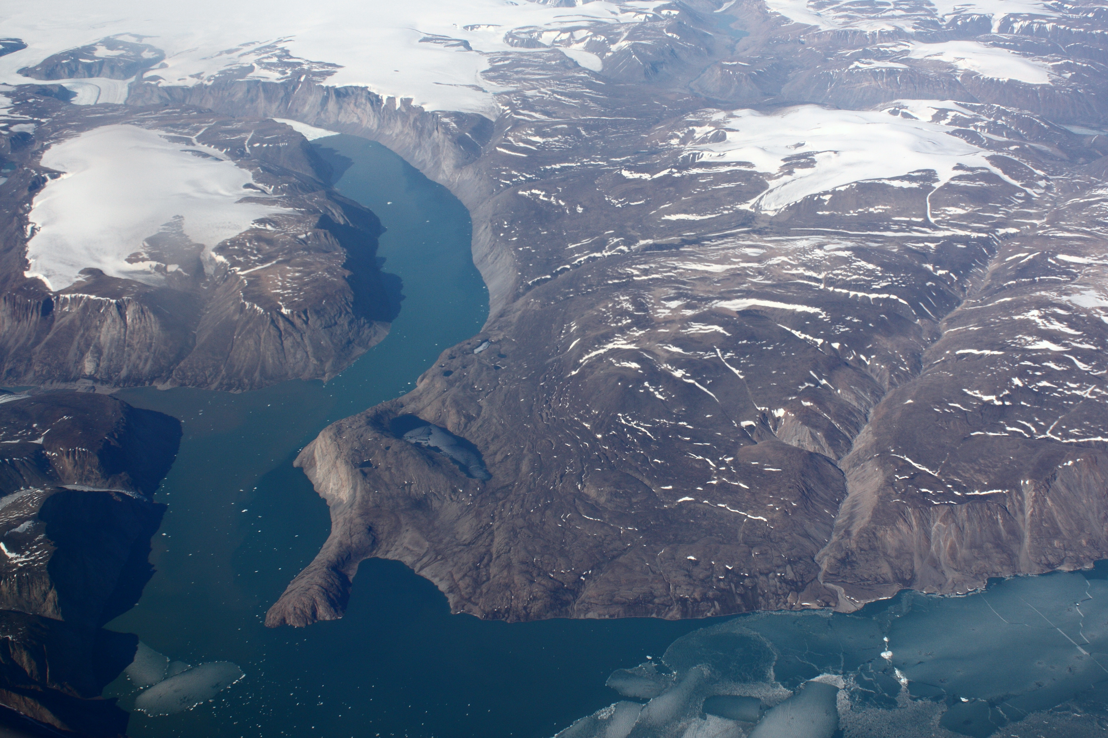 Taken on a flight from Moscow to Chicago